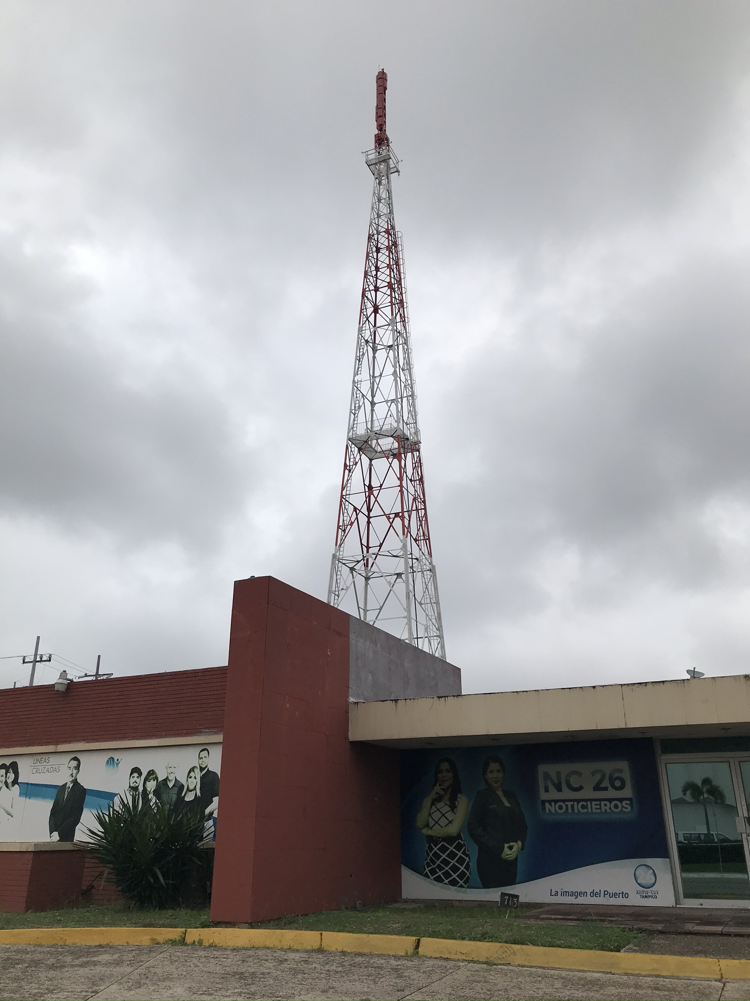 Representa una antena emisora de Televisión TDT